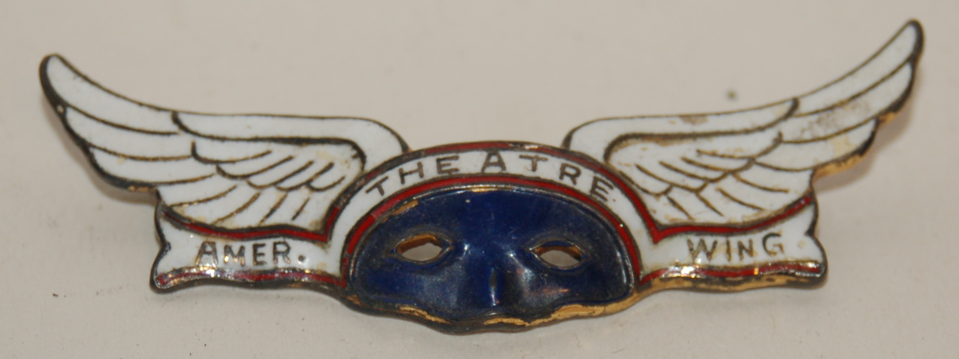 enamel on brass American Theatre Wing lapel pin, 2.5" wide.